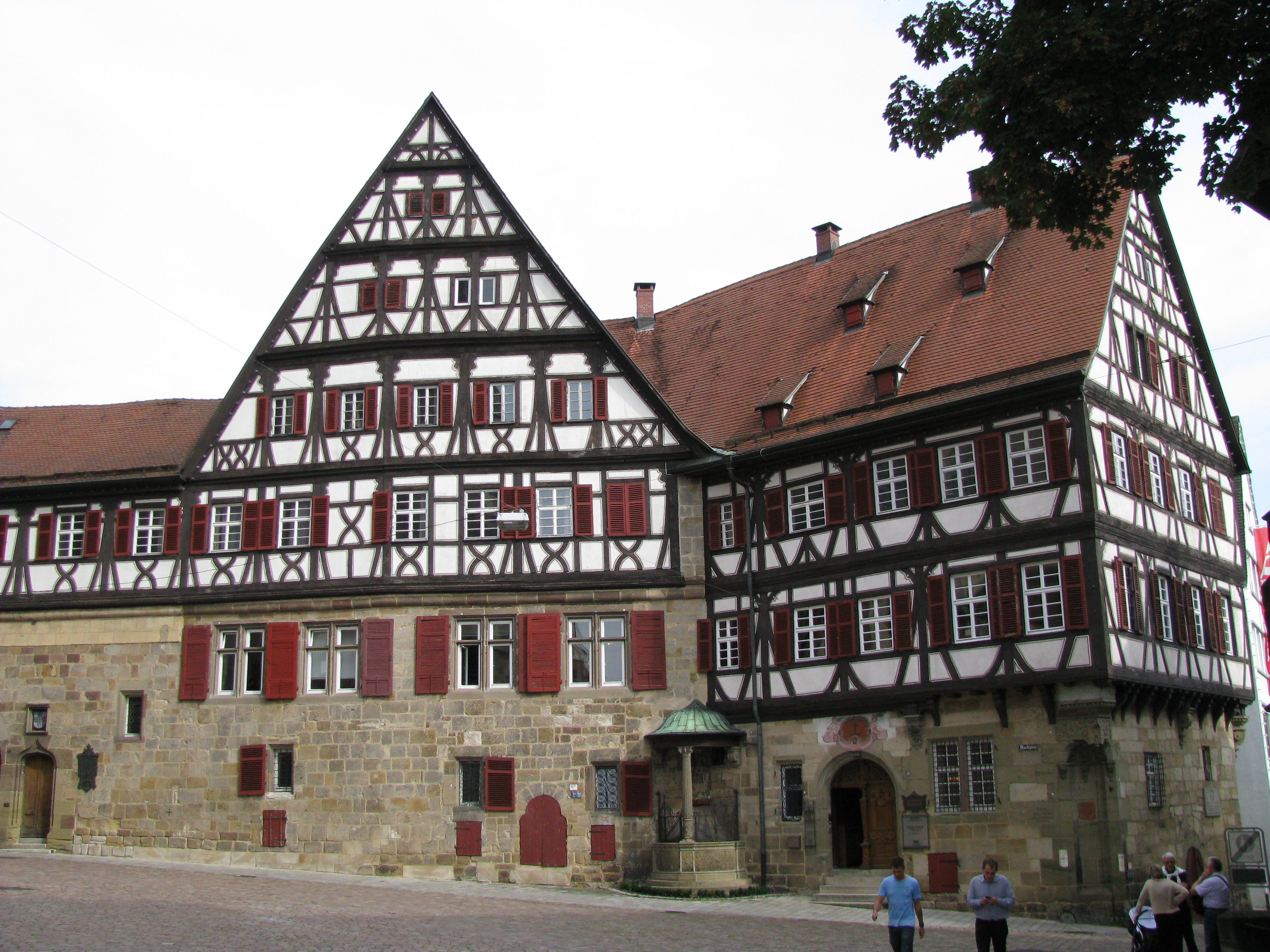 Speyrer Zehnthof in Esslingen, a donation by emperor Frederik II to the cathedral of Speyer